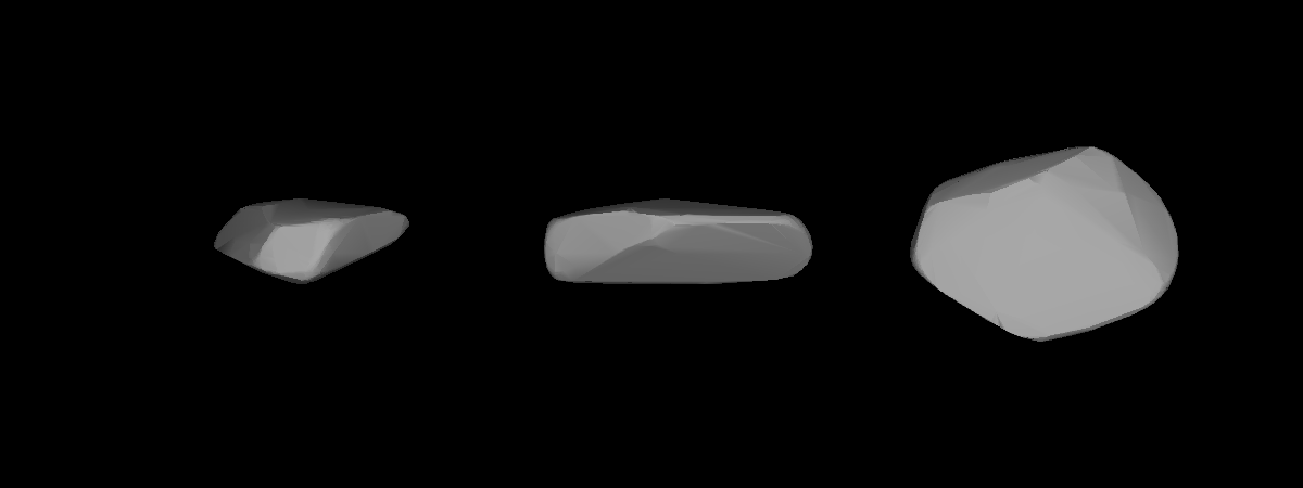 A three-dimensional model of 1423 Jose that was computed using light curve inversion techniques.